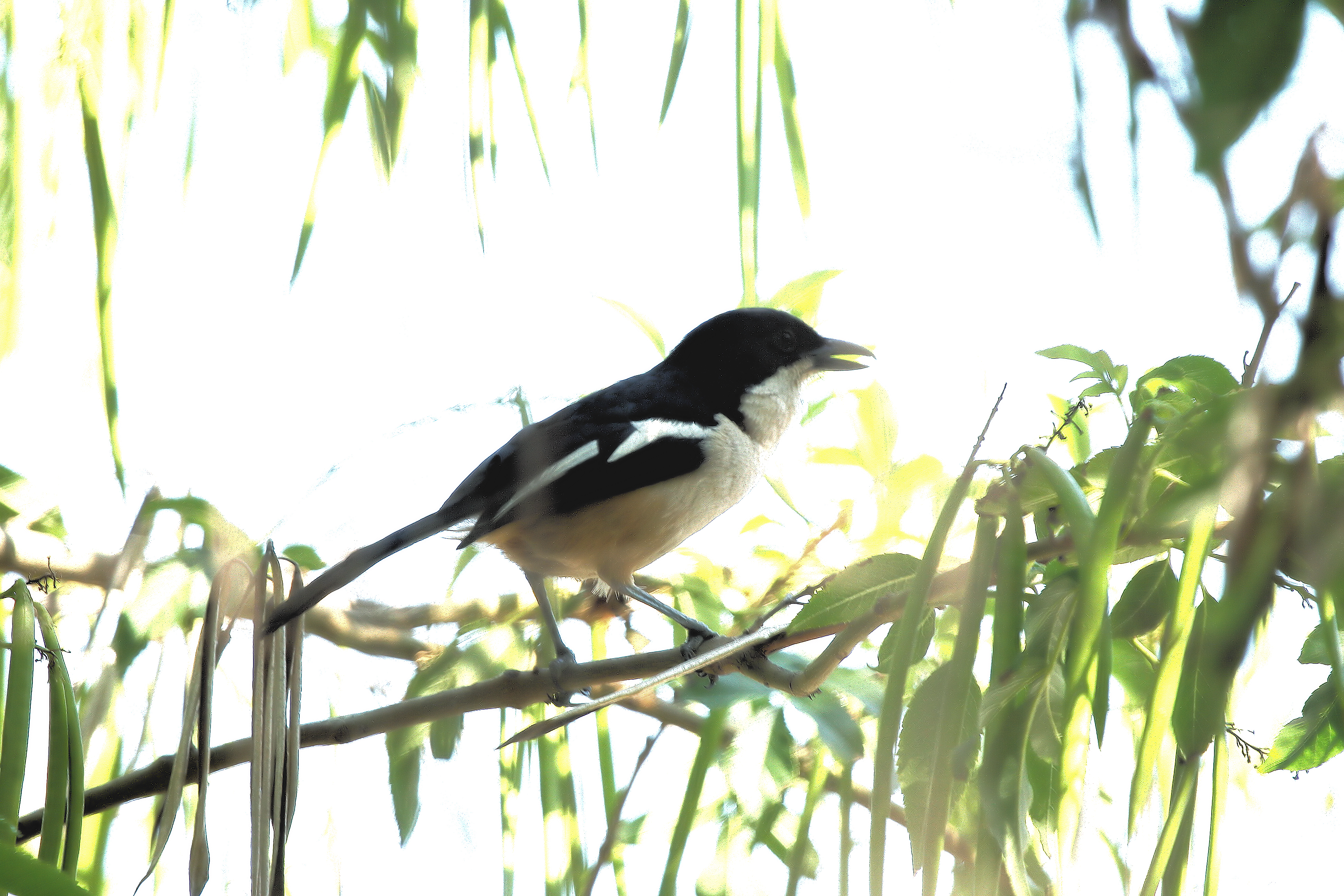 Southern Boubou, Laniarius ferrugineus